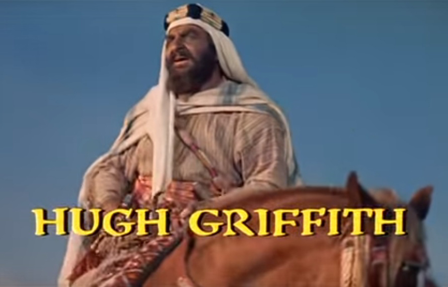 Cropped screenshot of Hugh Griffith from the trailer for the film Ben Hur